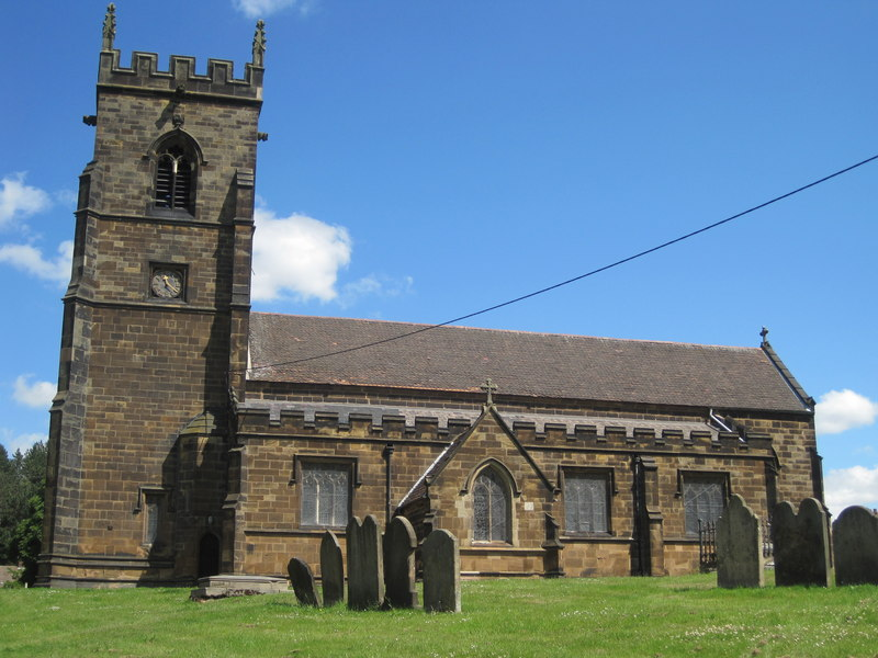 Photograph of Holy Trinity Church, Dawley, Shropshire, England